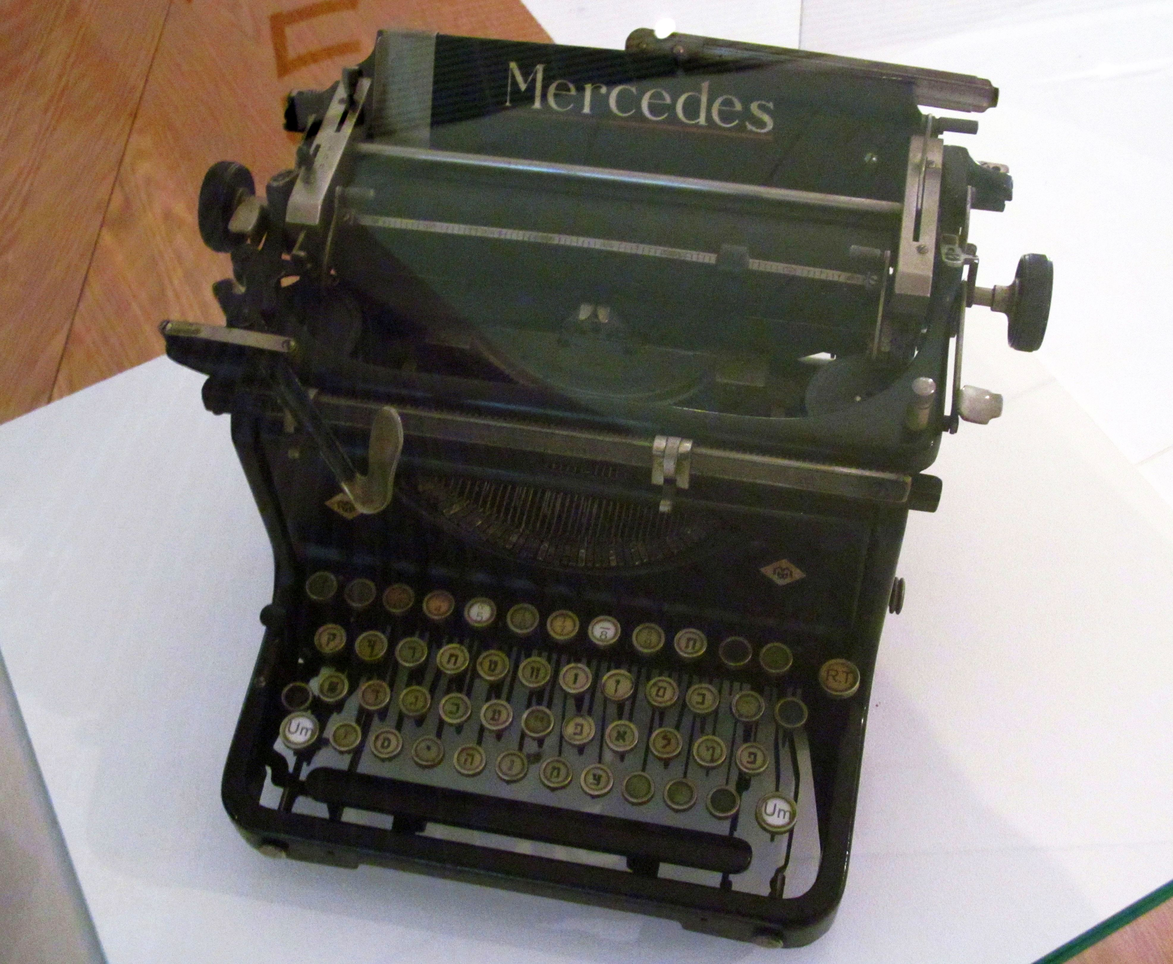 Yiddish typewriter, showing the historic Yiddish keyboard layout; an exhibit in the Museum of the History of Polish Jews